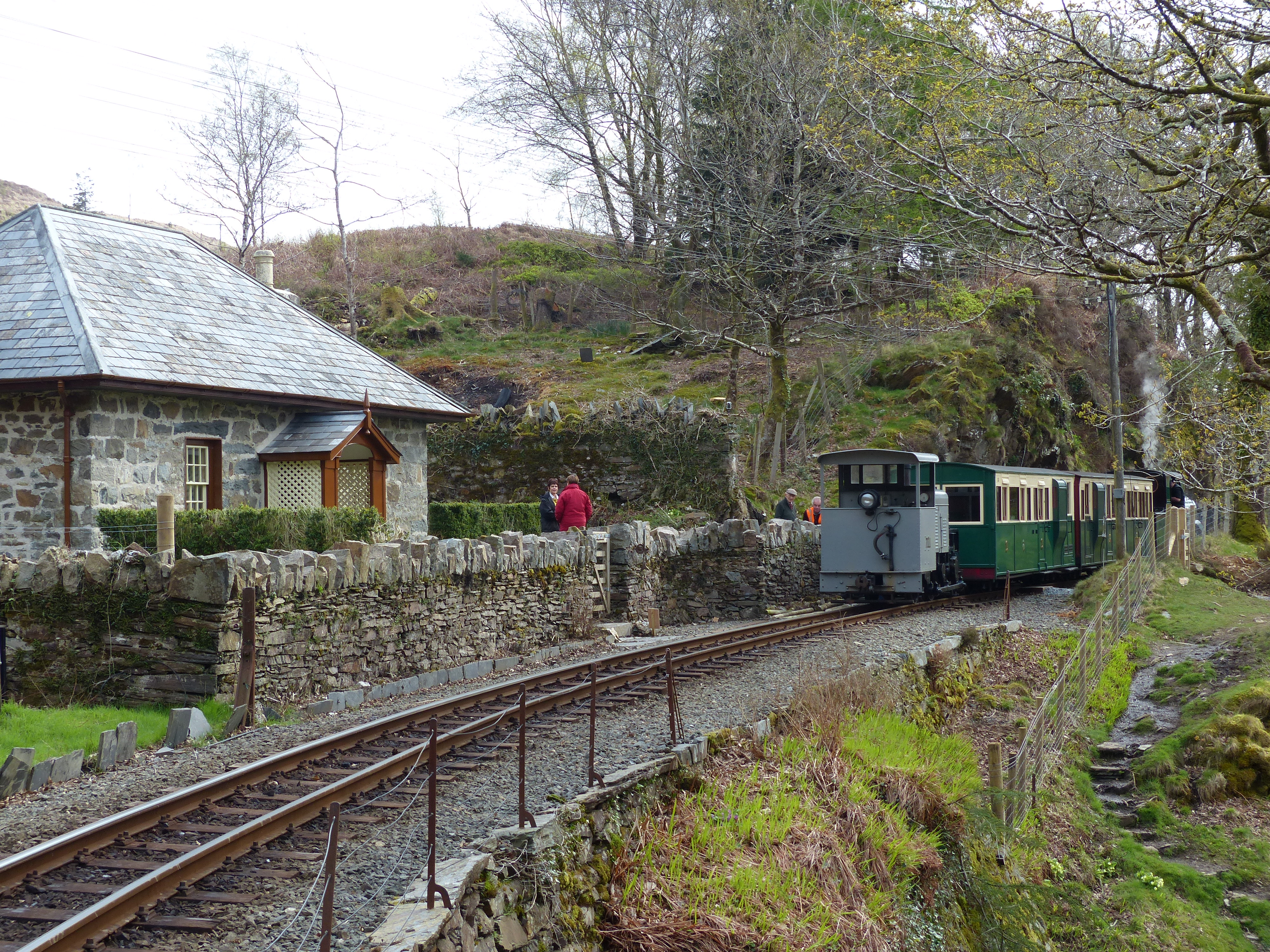 Coed y Bleiddiau,a Landmark Trust property near Tan-y-Bwlch, opened in April 2018